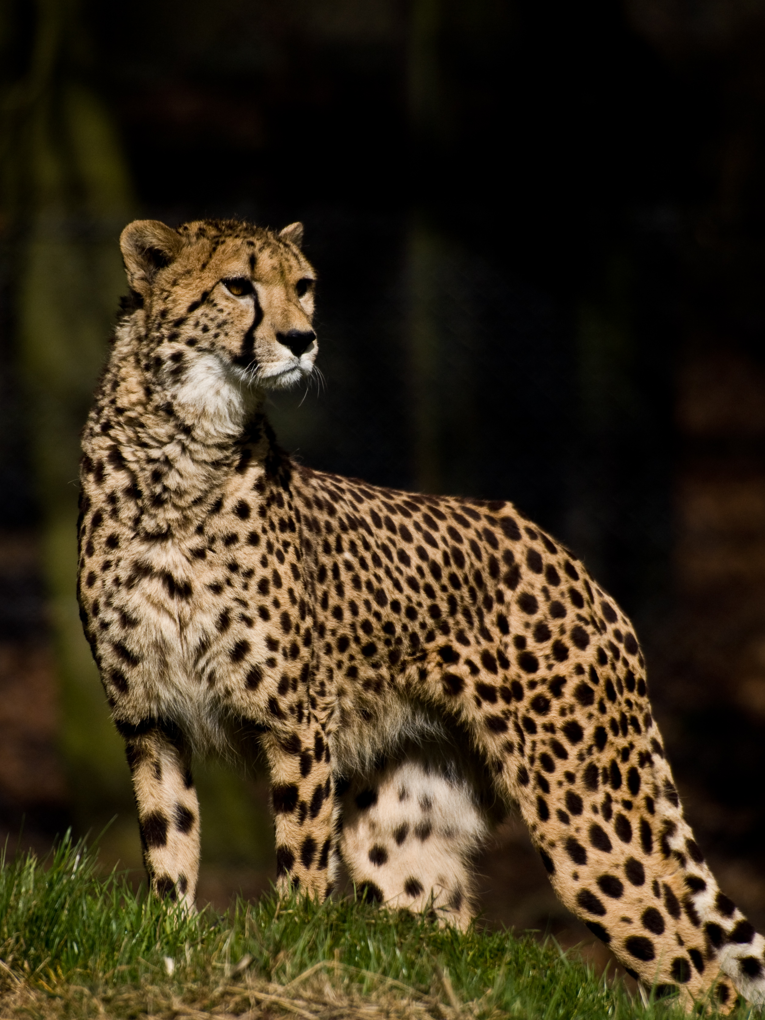 Cheetah standing on looking point at Whipsnade Zoo, Dunstable